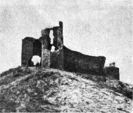 Ruins of the 13th century fortress of Enisala around World War I 01